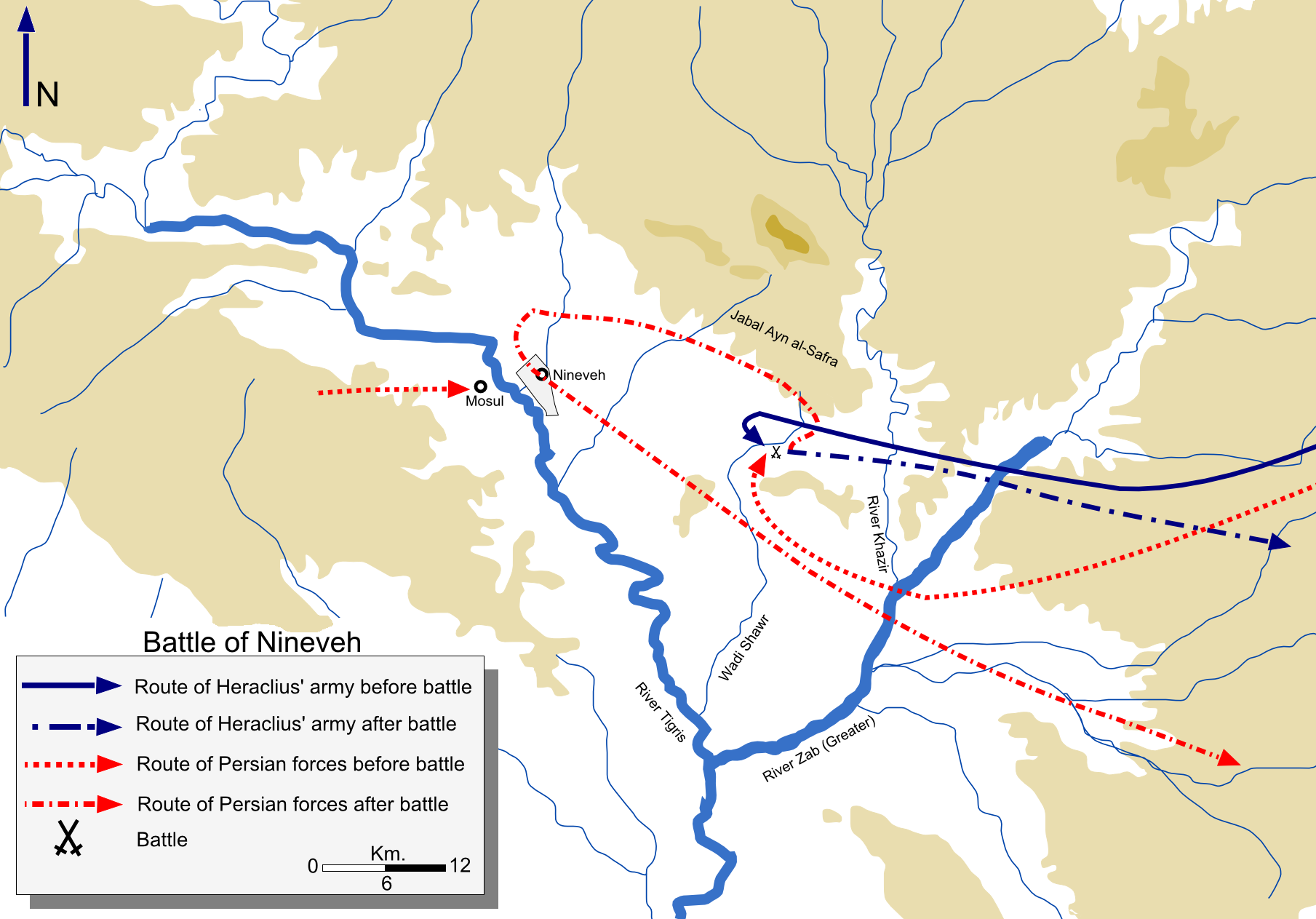 map detailing maneuvers of byzantine and persian forces before and after the battle of nineveh.